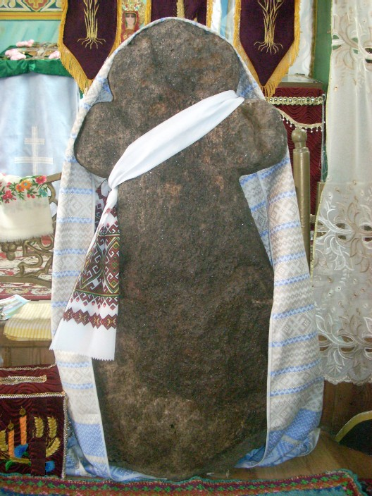 Zdudzichy Stone Cross.